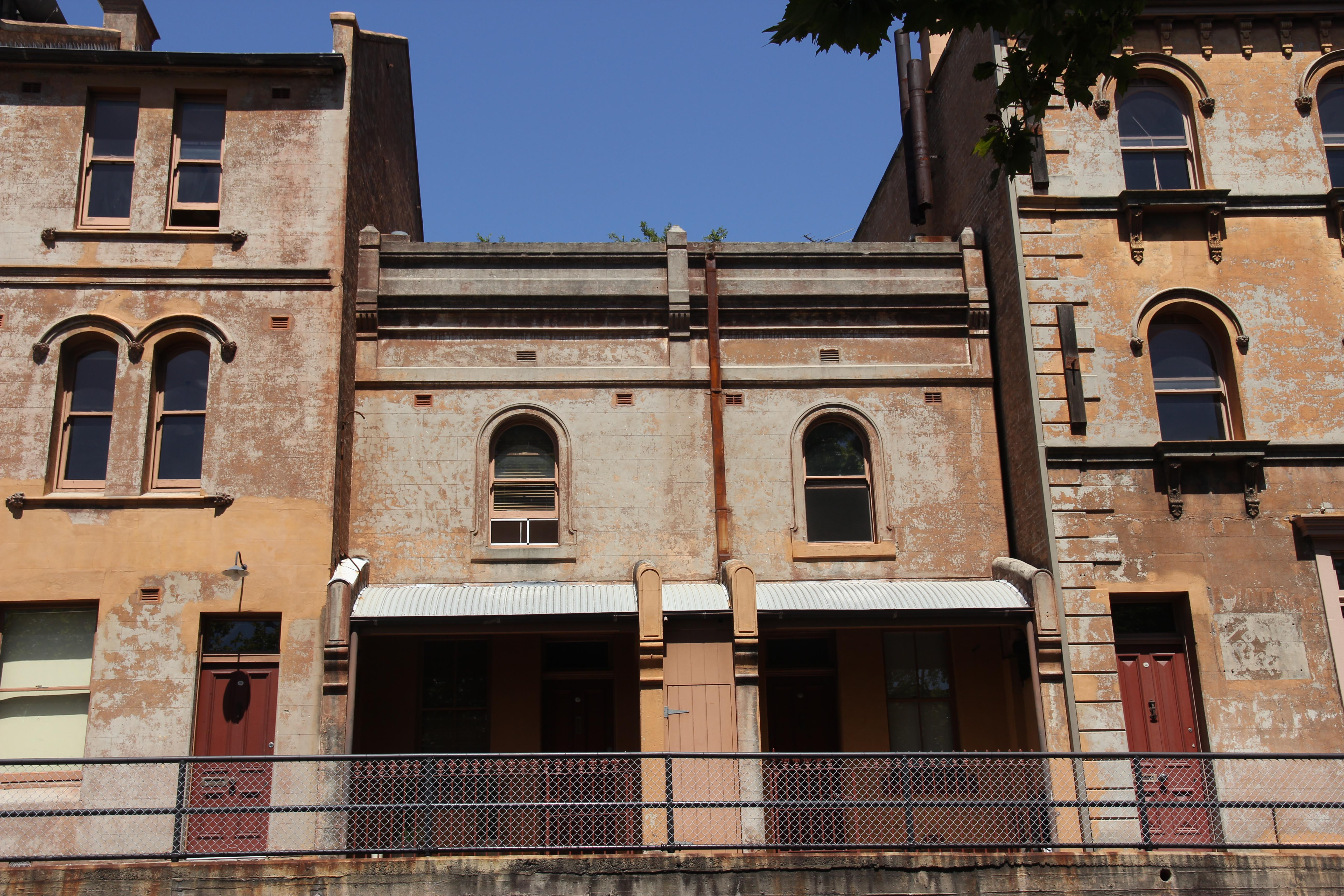 132-134 Cumberland Street in the Long's Lane Precinct, in The Rocks, in the City of Sydney, New South Wales, Australia. Listed on the New South Wales State Heritage Register.